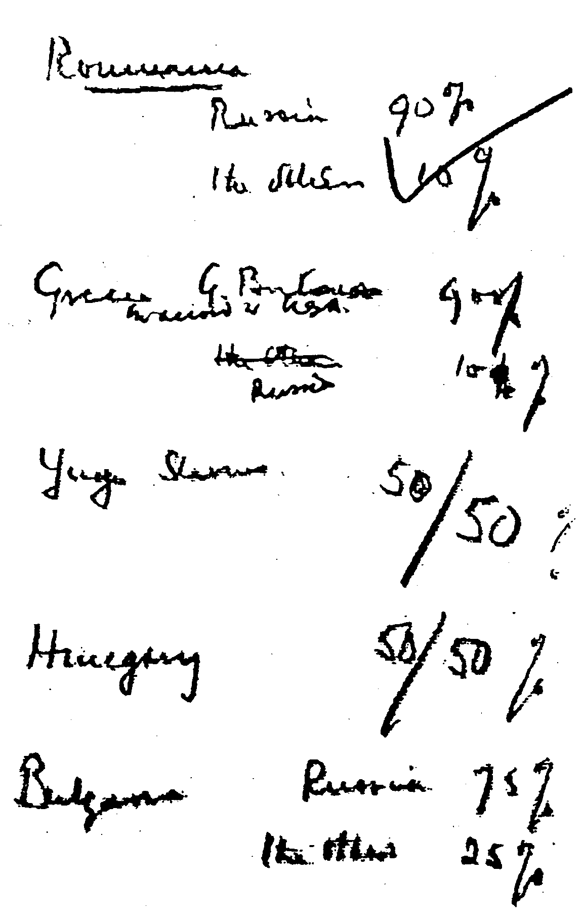 The Percentages Agreement, written by Winston Churchill on a napkin, on October 9, 1944.